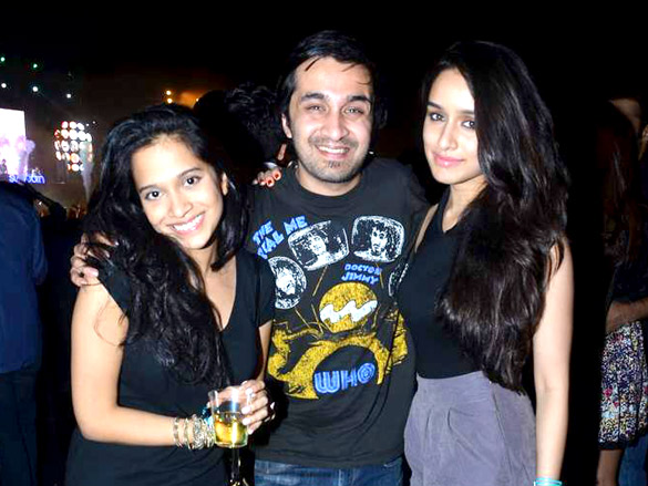 Shraddha Kapoor snapped at sunburn festival